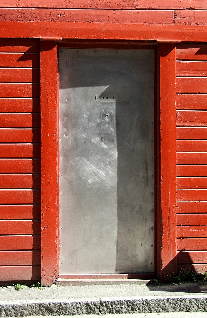 The door of the non-profit gallery "Galleri Blunk" at Nedre Elvehavn in Trondheim, Norway.